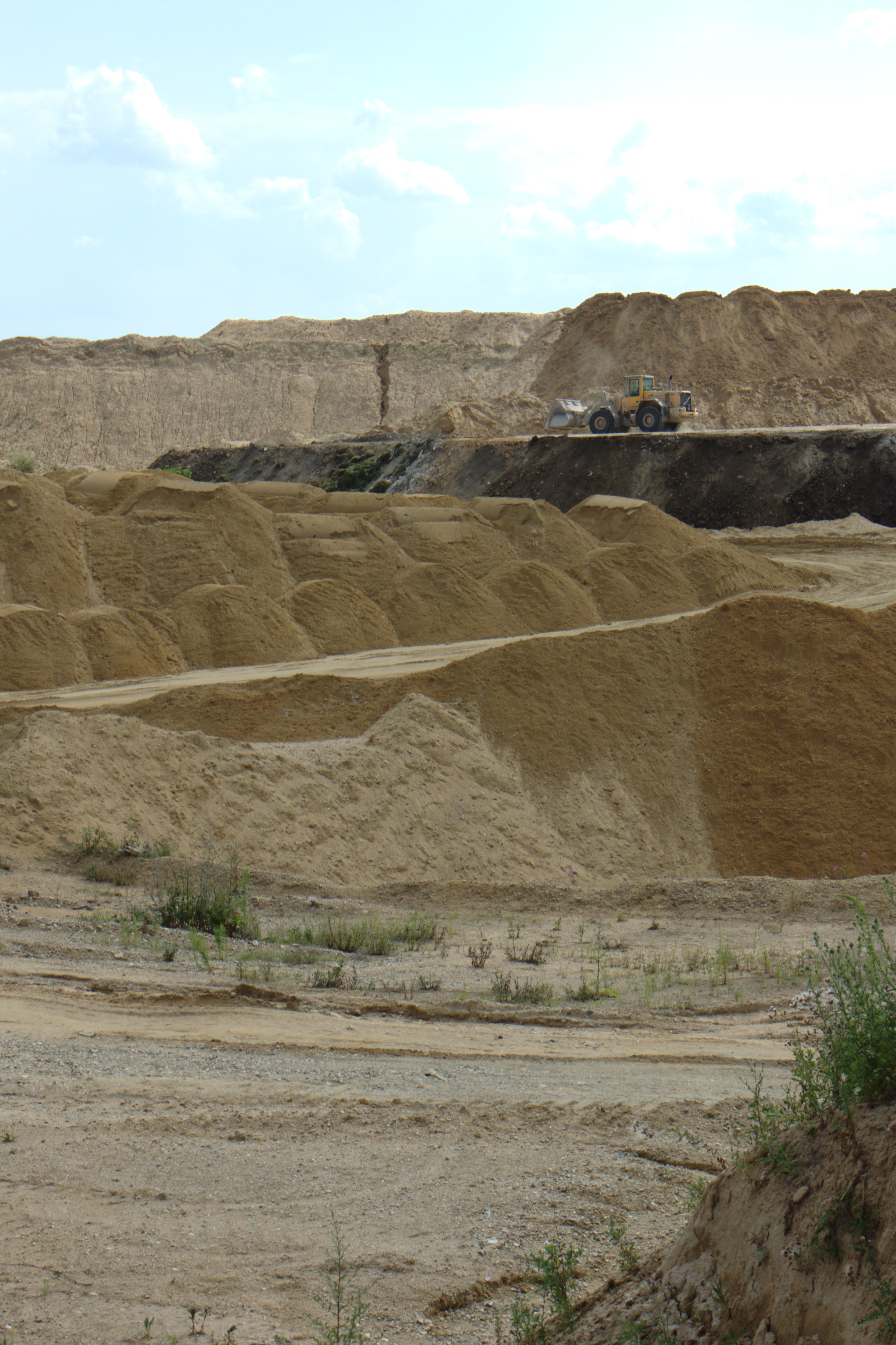 A sand mine near the village of Miletice, Central Bohemian Region, CZ